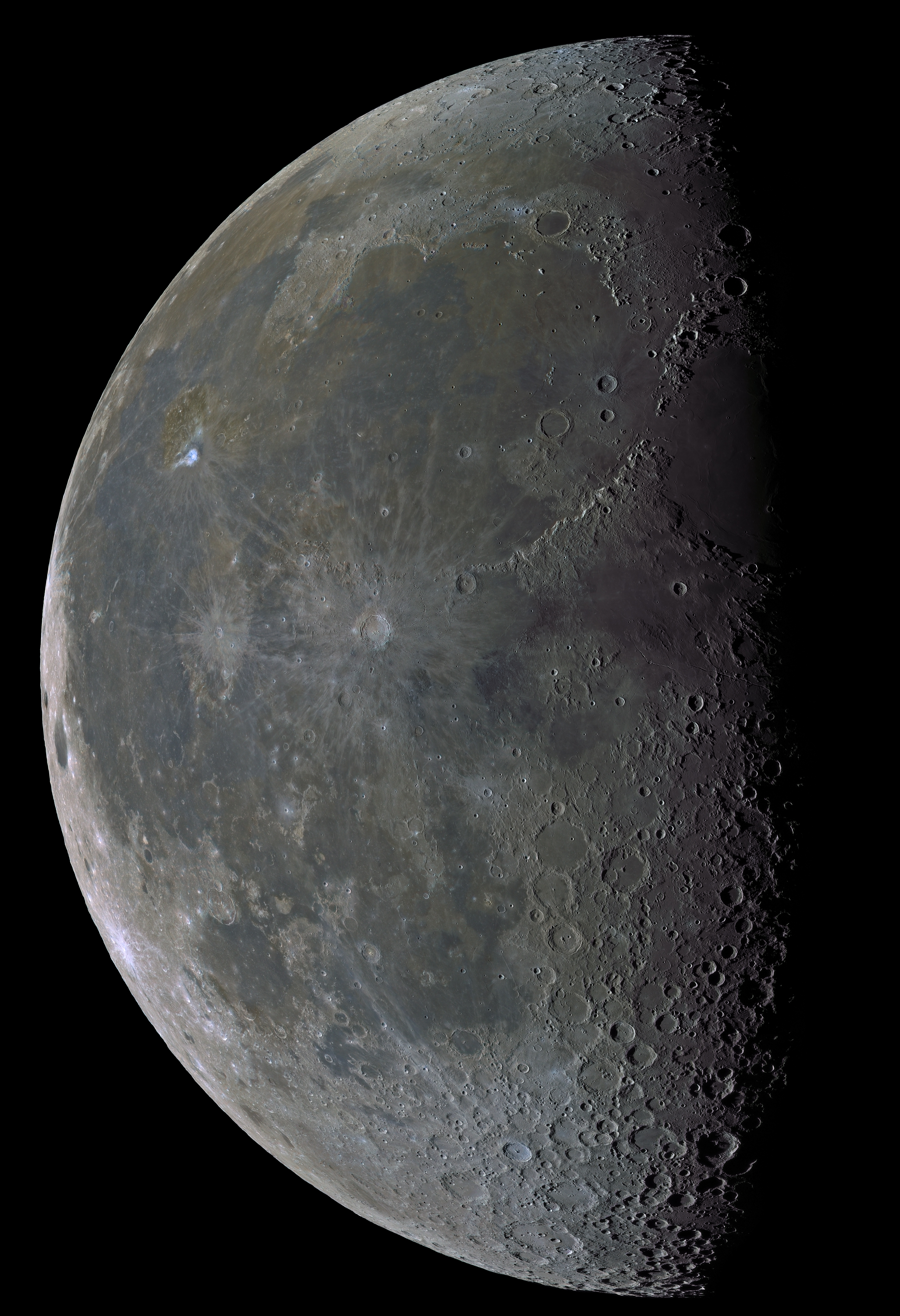 This color image of the Moon was made with 250mm telescope, special camera for Moon and planets imaging for white light image and DSLR camera for color. Final image is assembled of 22 elements, each element was made by stacking of best 256 frames selected from 3000 frames sequence ("Lucky imaging"). Color information was applied to high resolution black-and-white image. Color saturation was increased to present the difference in chemical composition of Moon soil. Final image shows craters with 1.5km size and bigger.